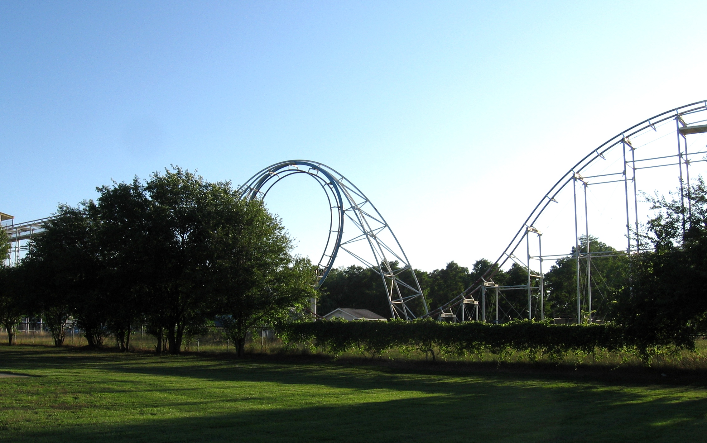 Silhouette of the Afterburner rollercoaster at Fun Spot Amusement Park.